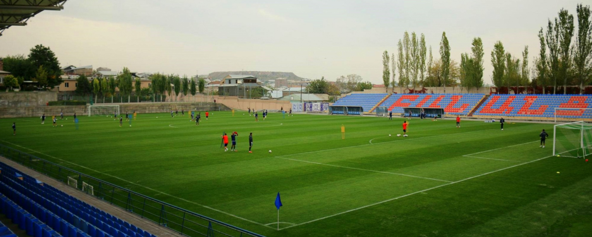 Banants Stadium, Yerevan, 18 October 2015